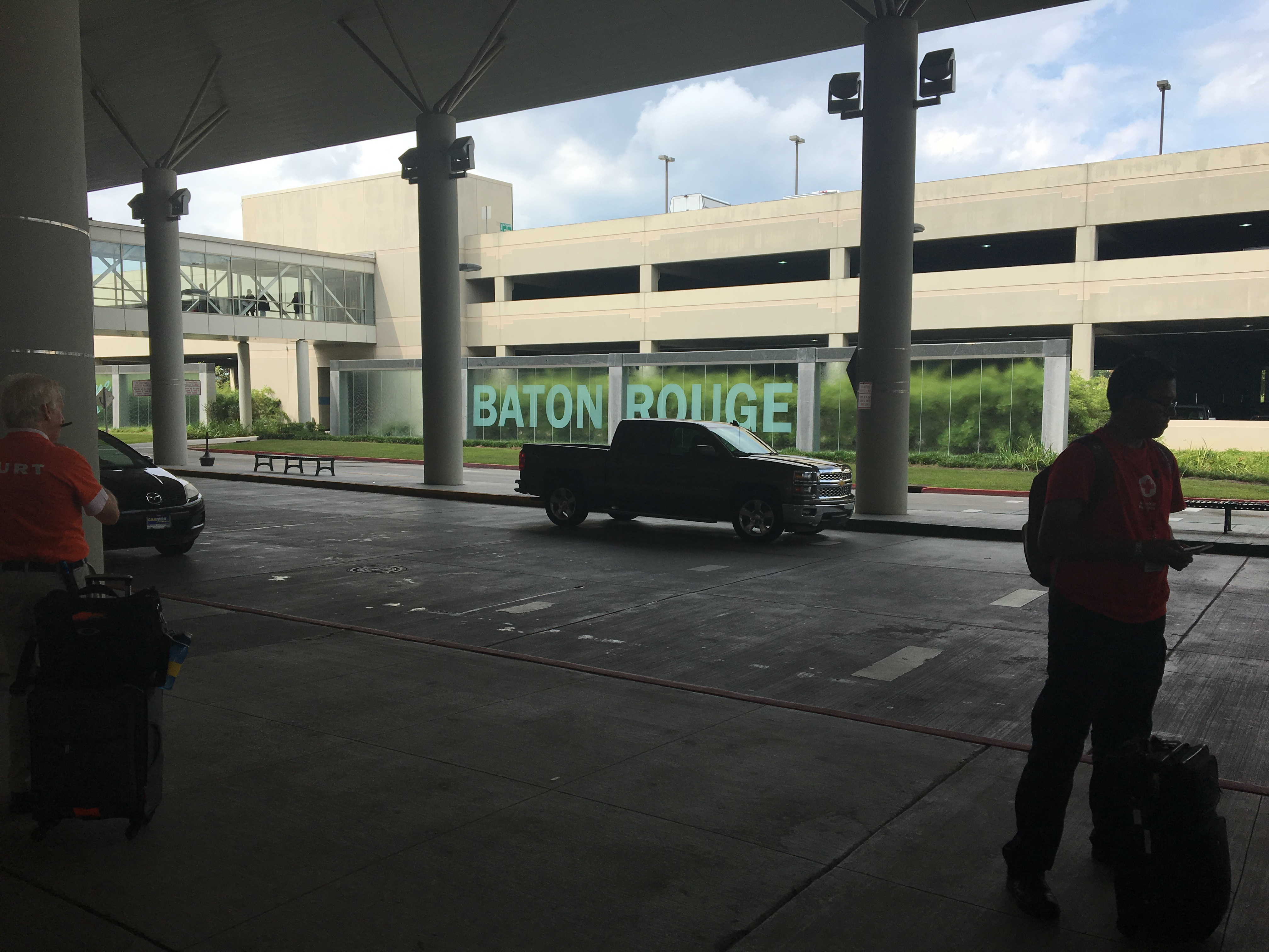 Baton Rouge Airport drop off lane